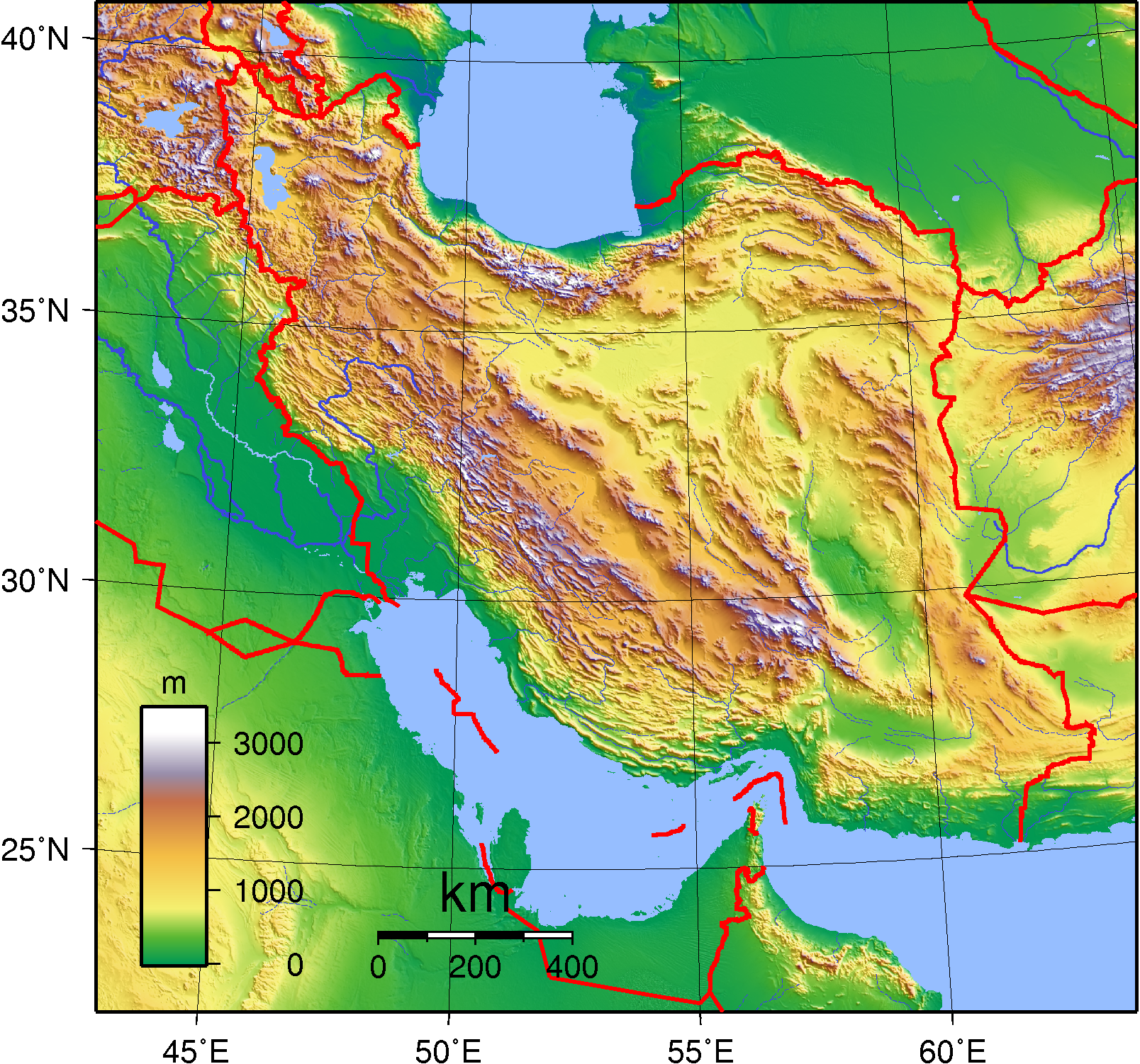 Topographic map of Iran. Created with GMT from SRTM data.